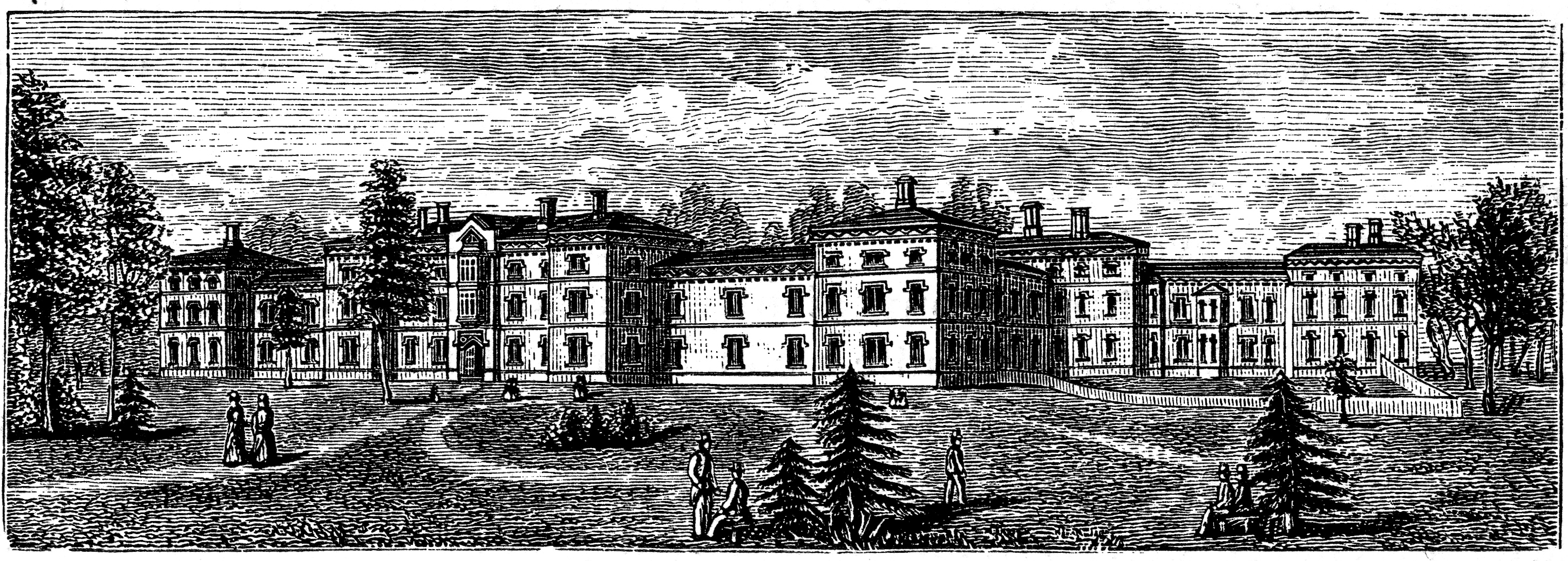 Butler Hospital for the Insane. Engraving from The Providence Plantations for 250 Years, Welcome Arnold Greene (1886), page 209.